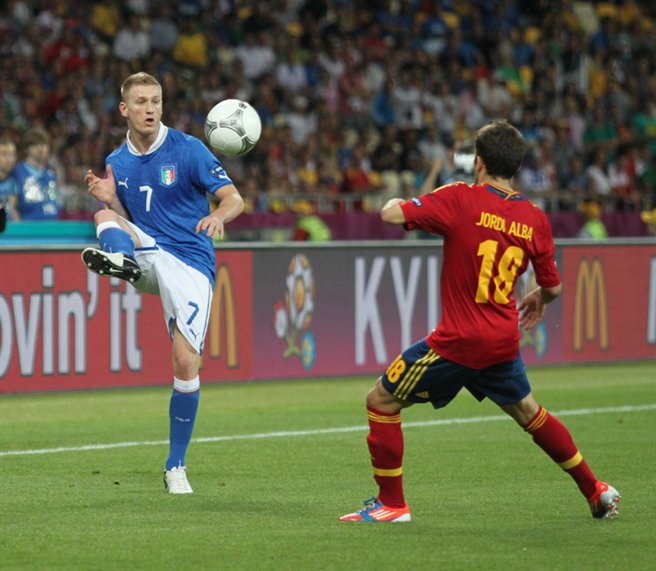 Ignazio Abate and Jordi Alba at Euro 2012 final Spain-Italy